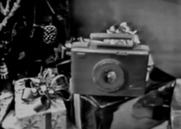 Screen capture taken from the video shown in the link. The Sylvania Skylark portable radio, taken out of it's case and placed on a table amongst Christmas presents.